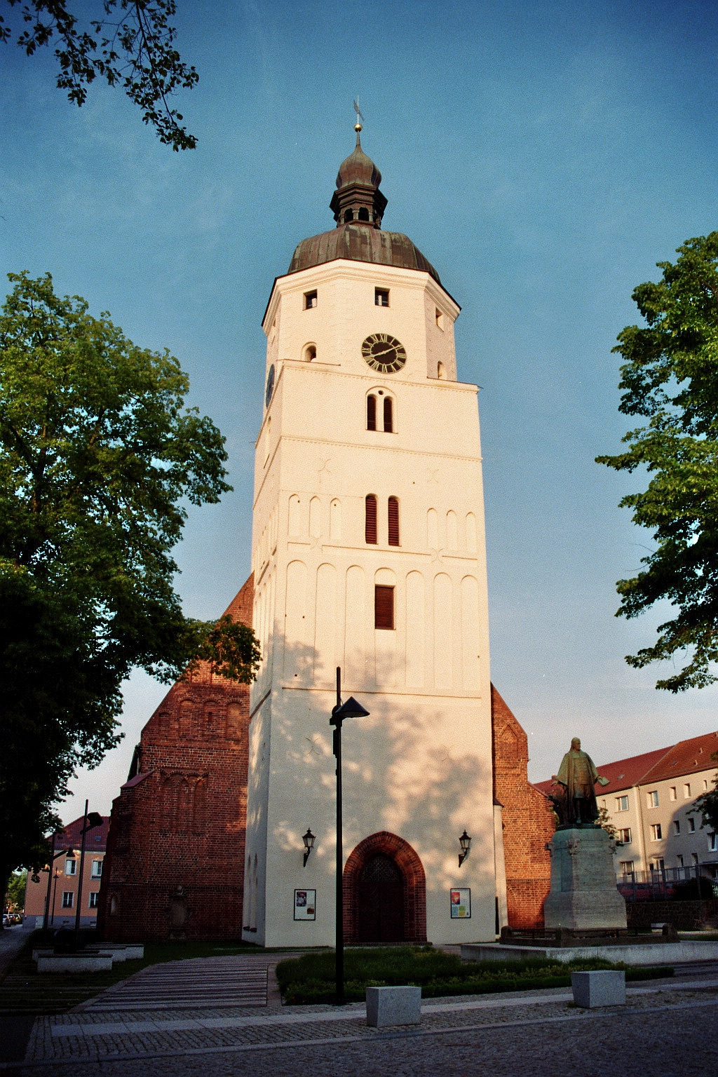 Protestant Paul Gerhardt church (Paul-Gerhardt-Kirche) in Lübben, Landkreis Dahme-Spreewald, Brandenburg, Germany.